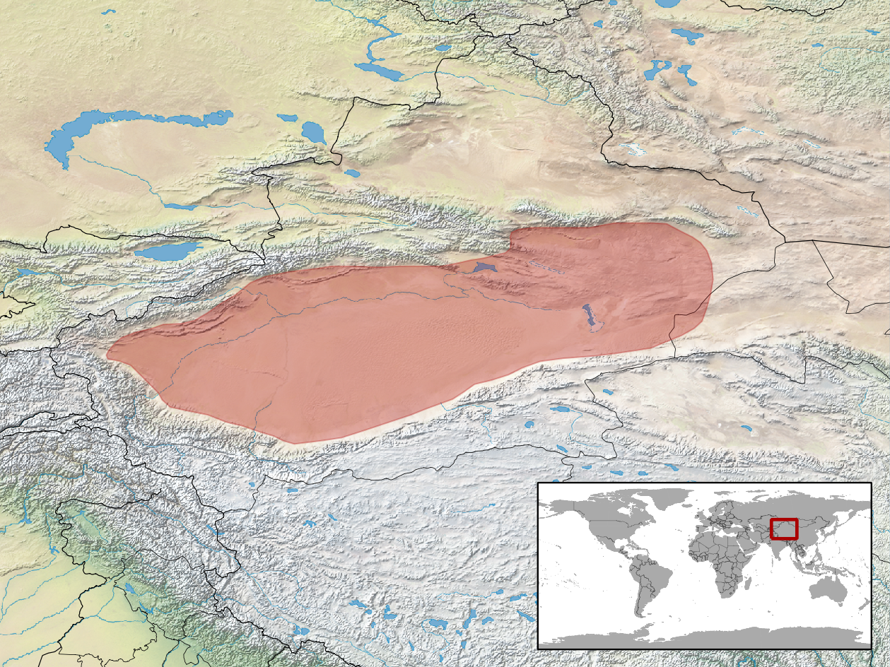 geographic distribution of Alsophylax przewalskii (Native: China)